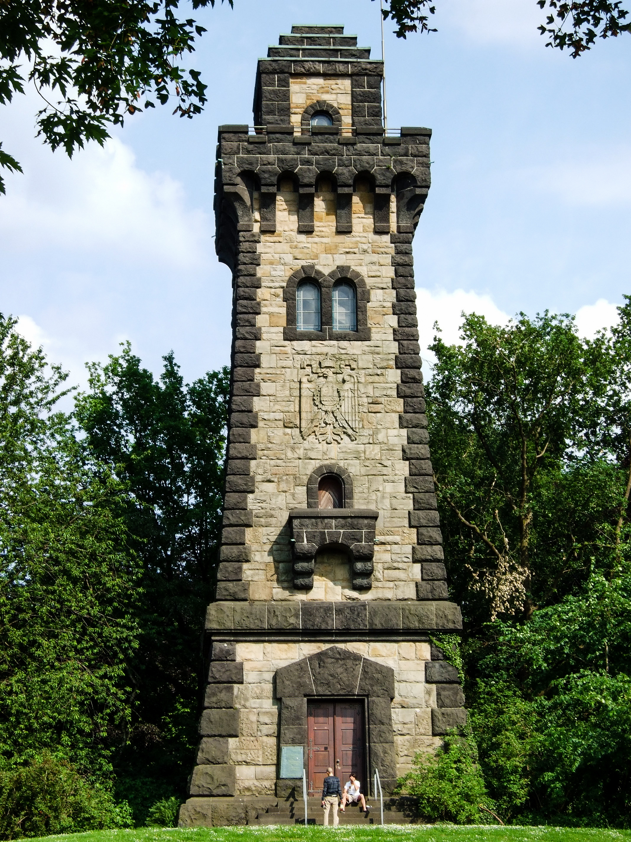 "Bismarckturm" (Tower of Bismarck) in Mülheim/Ruhr